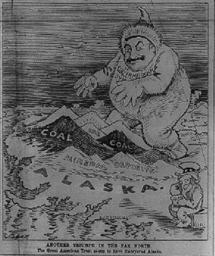 Cartoon showing Daniel Guggenheim as 'Guggenmorgan Syndicate' Giant about to grab 'Alaska Mineral Deposits' while tiny 'Uncle Sam' sits by eating gum drops